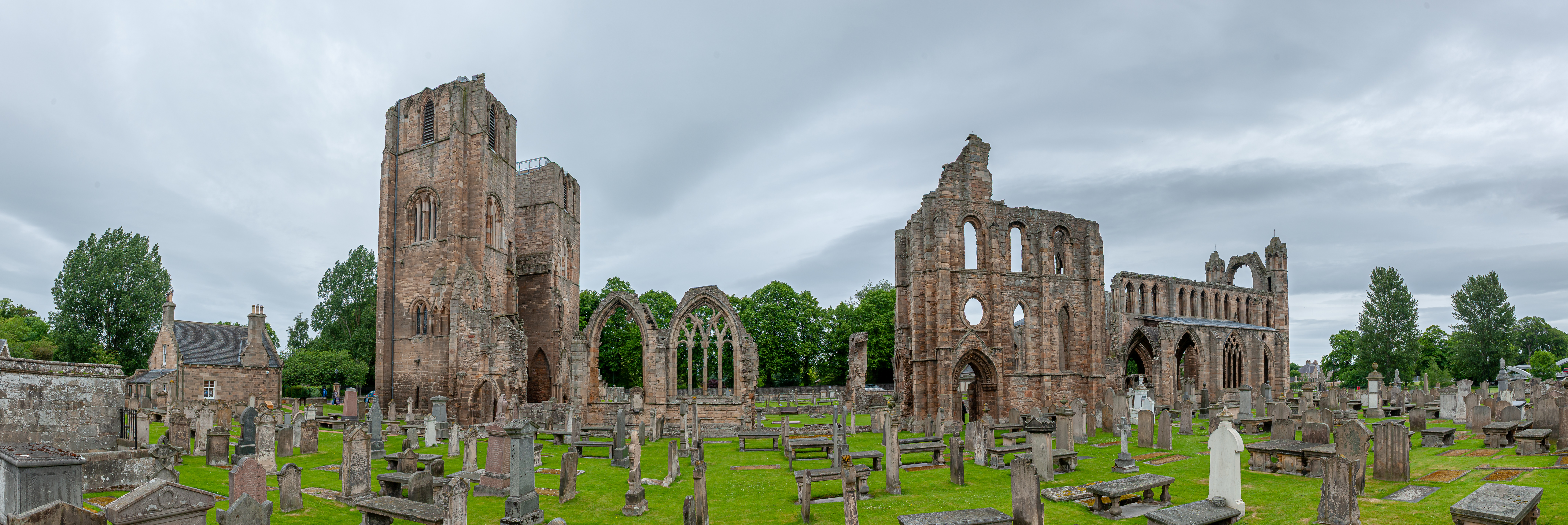 Elgin Cathedral, Scotland